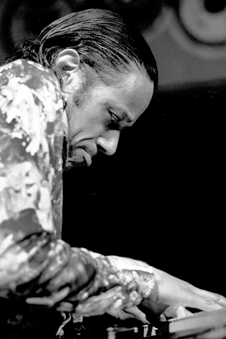 Horace Silver at Keystone Korner, San Francisco CA 1978. Photo: Brian McMillen /